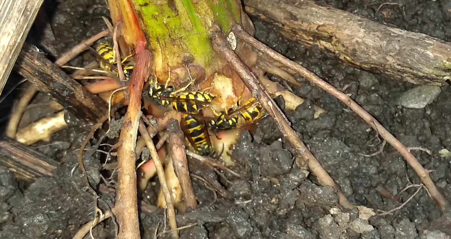 Wasps feeding on the stems of Jerusalem Artichokes. Photo taken late August 2019.